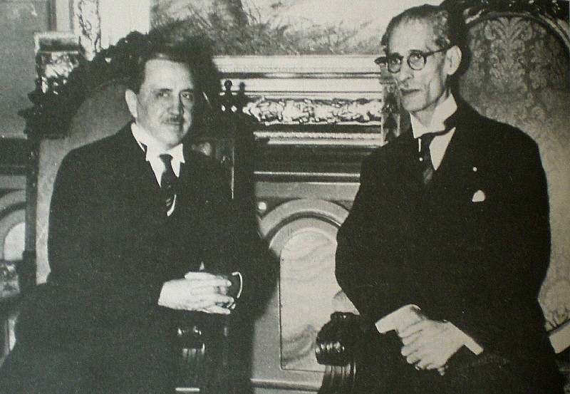 U.S. ambassador Frank P. Corrigan and Venezuelan president Eleazar López Contreras